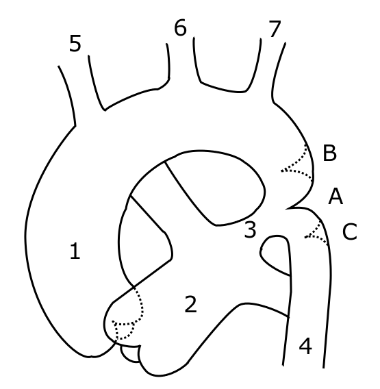 Schematic drawing of alternative locations of a coarctation of the aorta. I, Kjetil Lenes, have made the drawing myself, after information from Valdes-Cruz LM, Cayre RO: Echocardiographic diagnosis of congenital heart disease. Philadelhia, 1998.. Legend: A: ductal coarctation, B: preductal coarctation, C: postductal coarctation. 1: Aorta ascendens, 2: Arteria pulmonalis, 3: Ductus arteriosus, 4: Aorta descendens, 5: Trunchus brachiocephalicus, 6: Arteria carotis communis sinister, 7: Arteria subclavia sinister The picture is somewhat misleading, with left pulmonary artery crossing behind aorta. This will be changed in a future drawing.